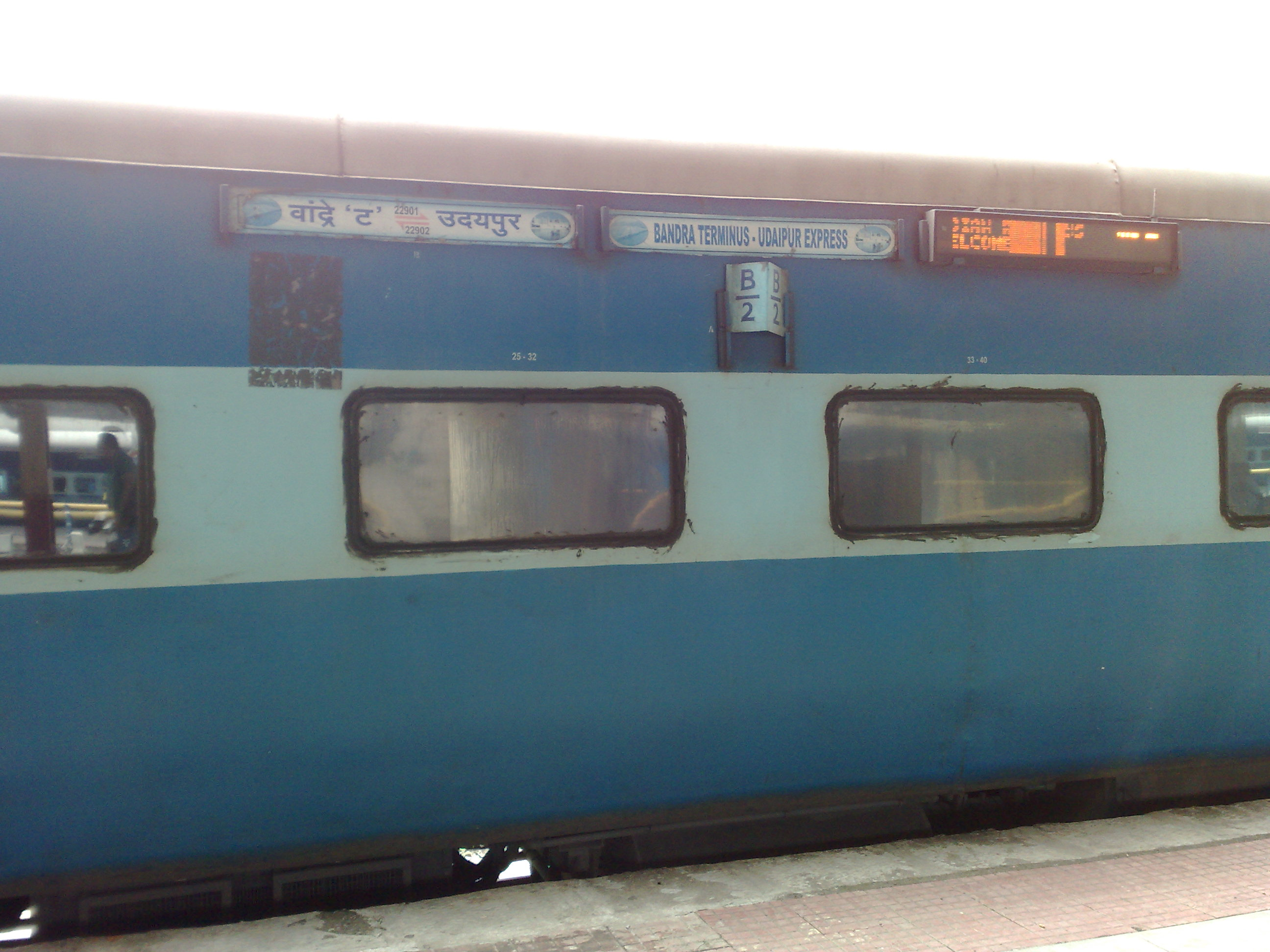 22902 Udaipur Superfast Express - AC 3 tier